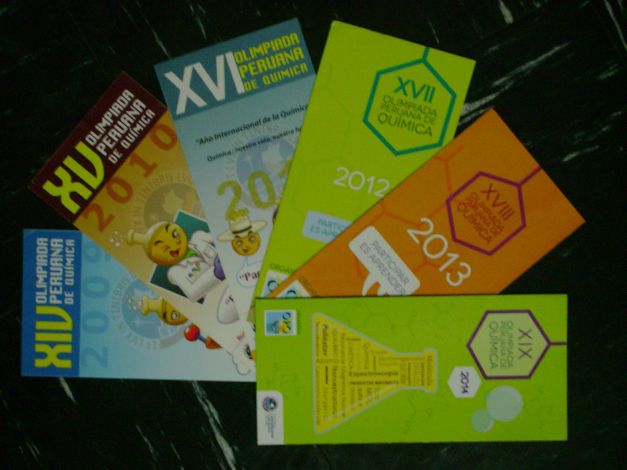 Leaflets of the Peruvian Chemistry Olympiad, 2009-2014